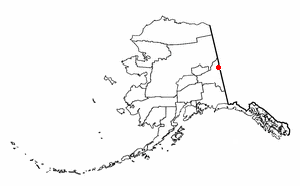 Adapted from Wikipedia's AK borough maps by Seth Ilys.